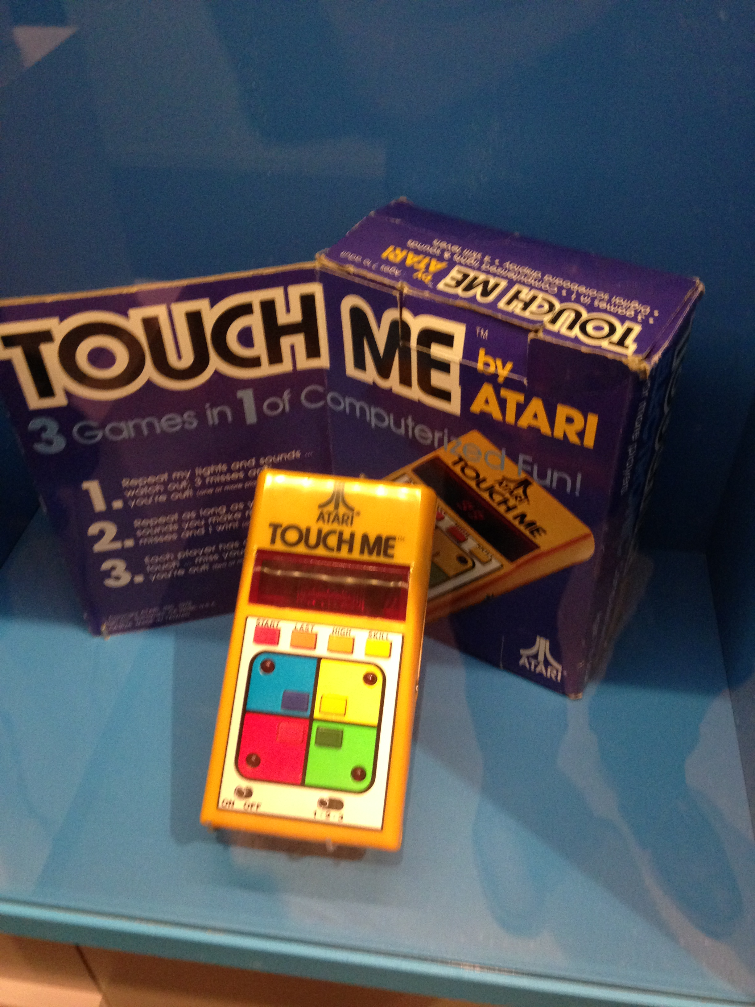 Atari Touch me